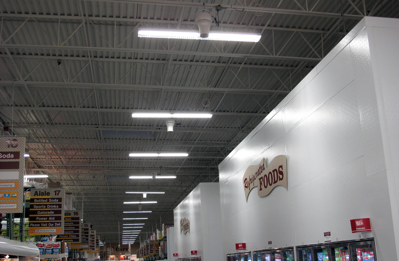 Thermal Destratification Systems installed at BJ's® Wholesale Club